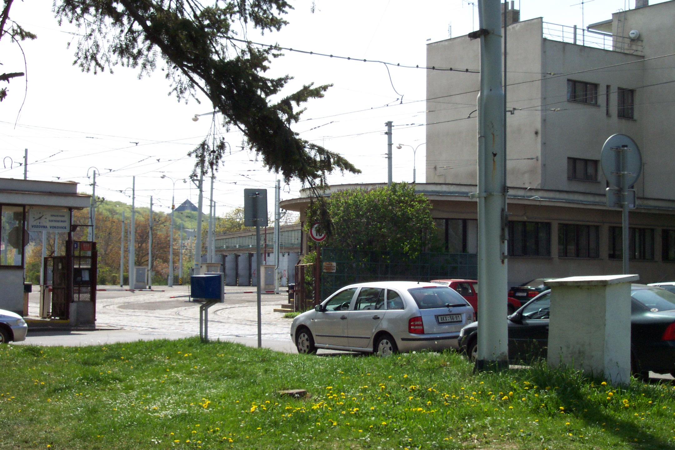 Prague, Veleslavín, Vozovna Vokovice tram depot